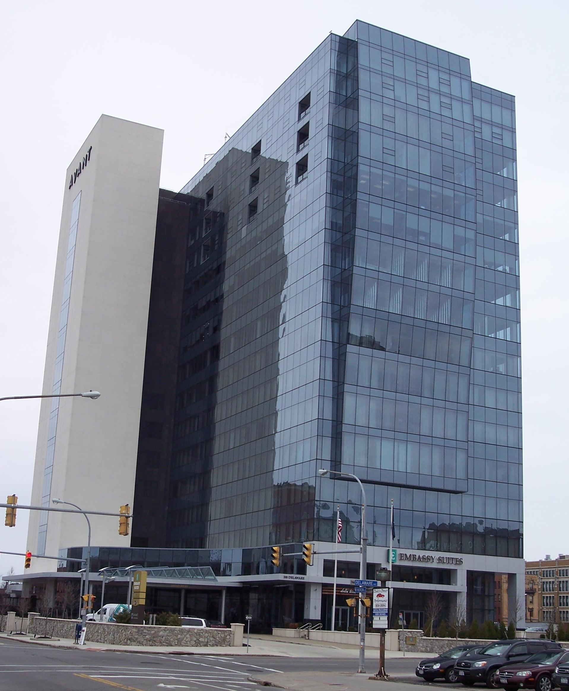 Avant building, 200 Delaware Avenue, Buffalo, NY, USA